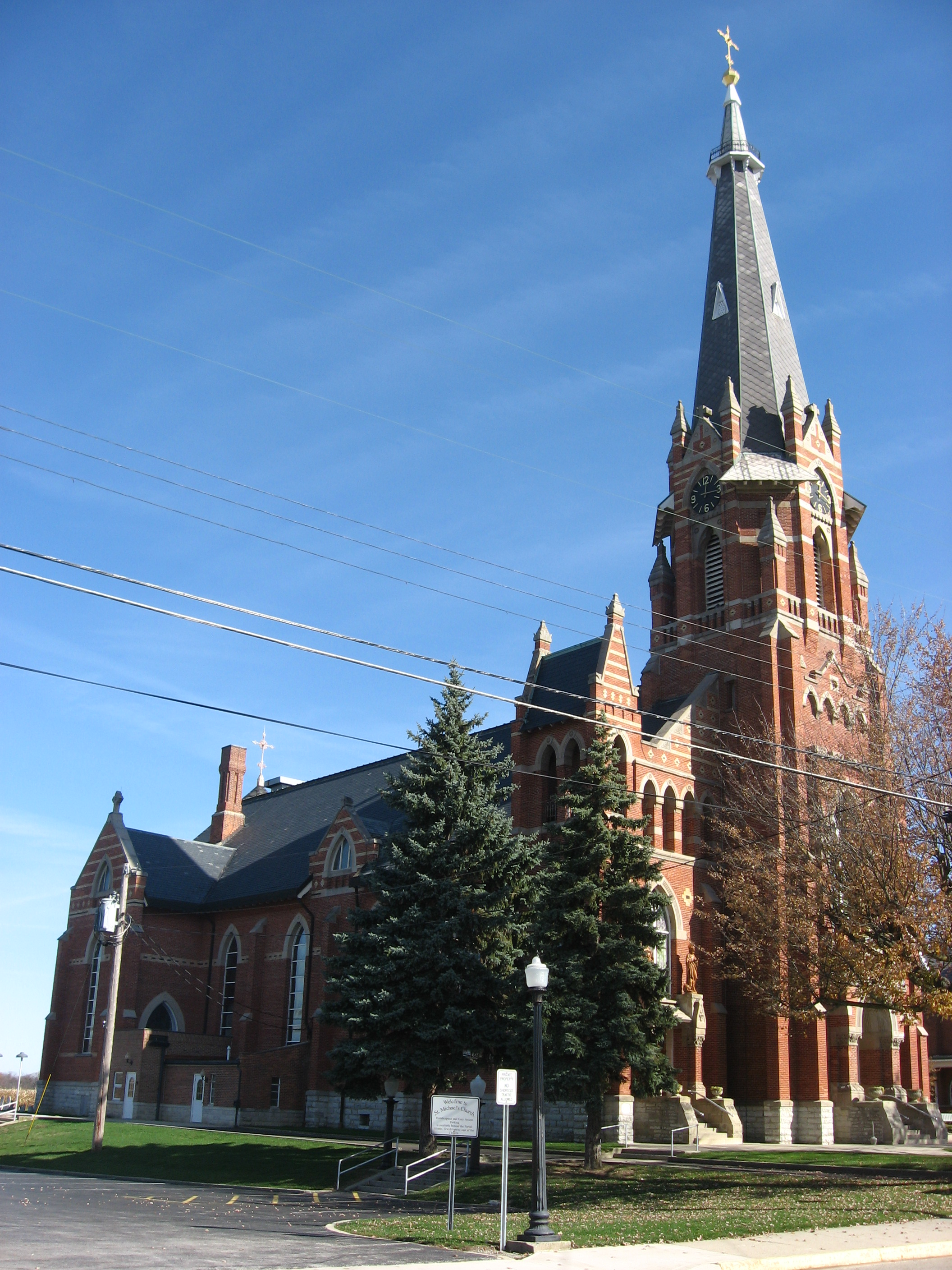 Front and western side of St. Michael's Catholic Church, located along State Route 705 east of its junction with State Route 66 in Fort Loramie, Ohio, United States. Built in 1881, it and three related buildings were added together to the National Register of Historic Places as a part of the Cross-Tipped Churches of Ohio Thematic Resources, under the title of "St. Michael Catholic Church Complex."